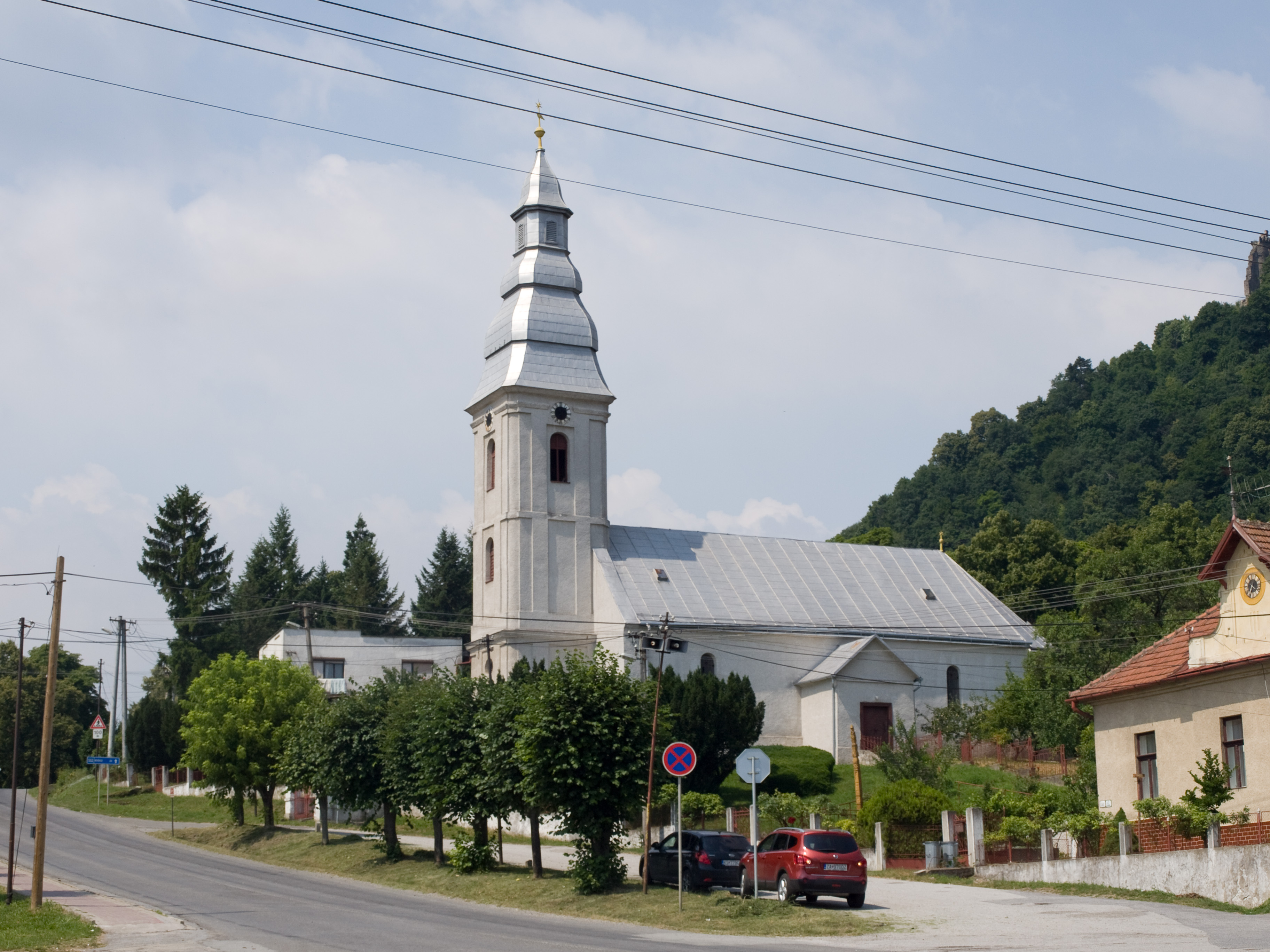 Church, Slanec, Košice-okolie District